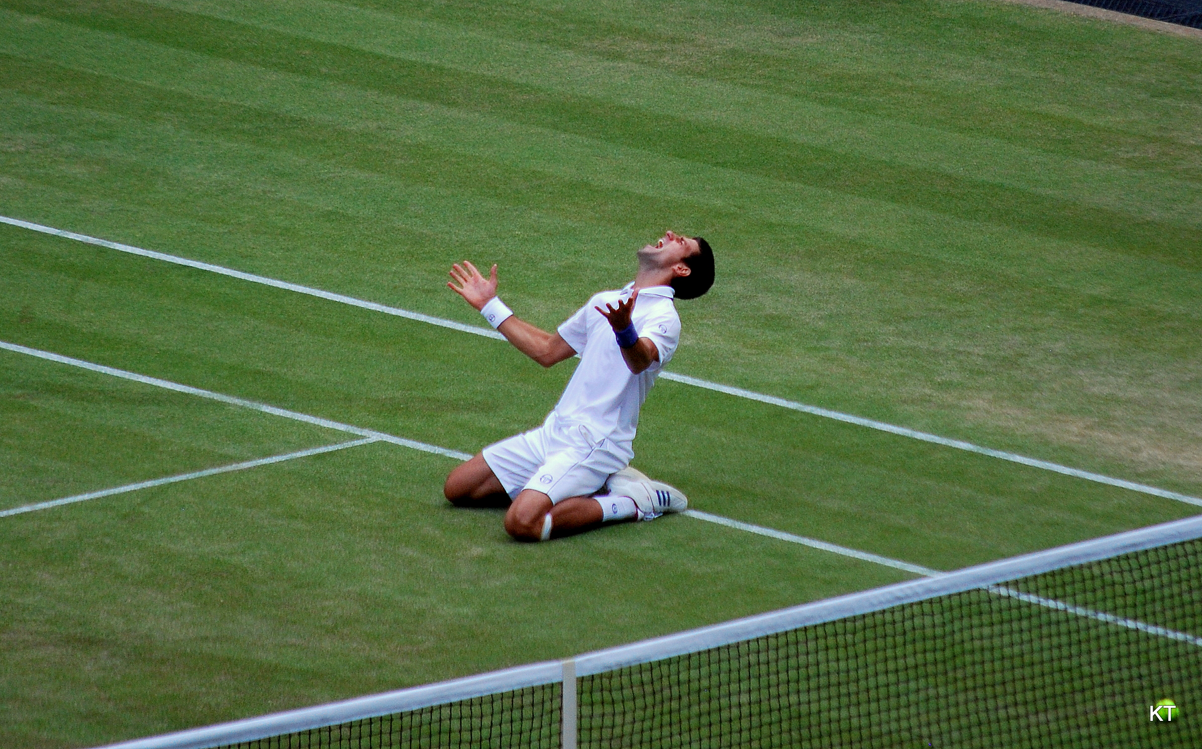 Novak Djokovic celebrates his 2011 Wimbledon semi-final win over Jo-Wilfried Tsonga. Victory meant that Djokovic successfully clinched the ATP World No. 1 ranking for the first time in his career. He also reached his first ever Wimbledon final, which he eventually won.